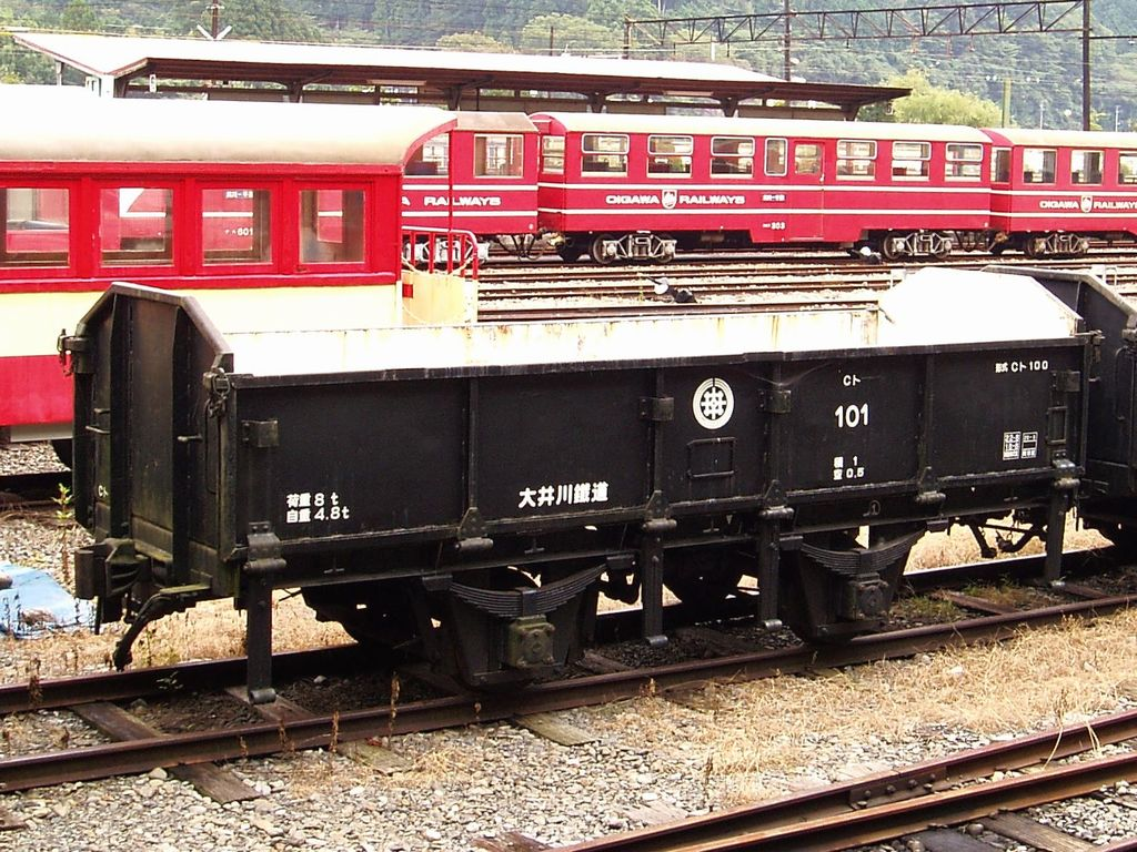 Oigawa Railway type To101. at Senzu Sta. 2007.10.10 Photo by Cassiopeia_sweet.